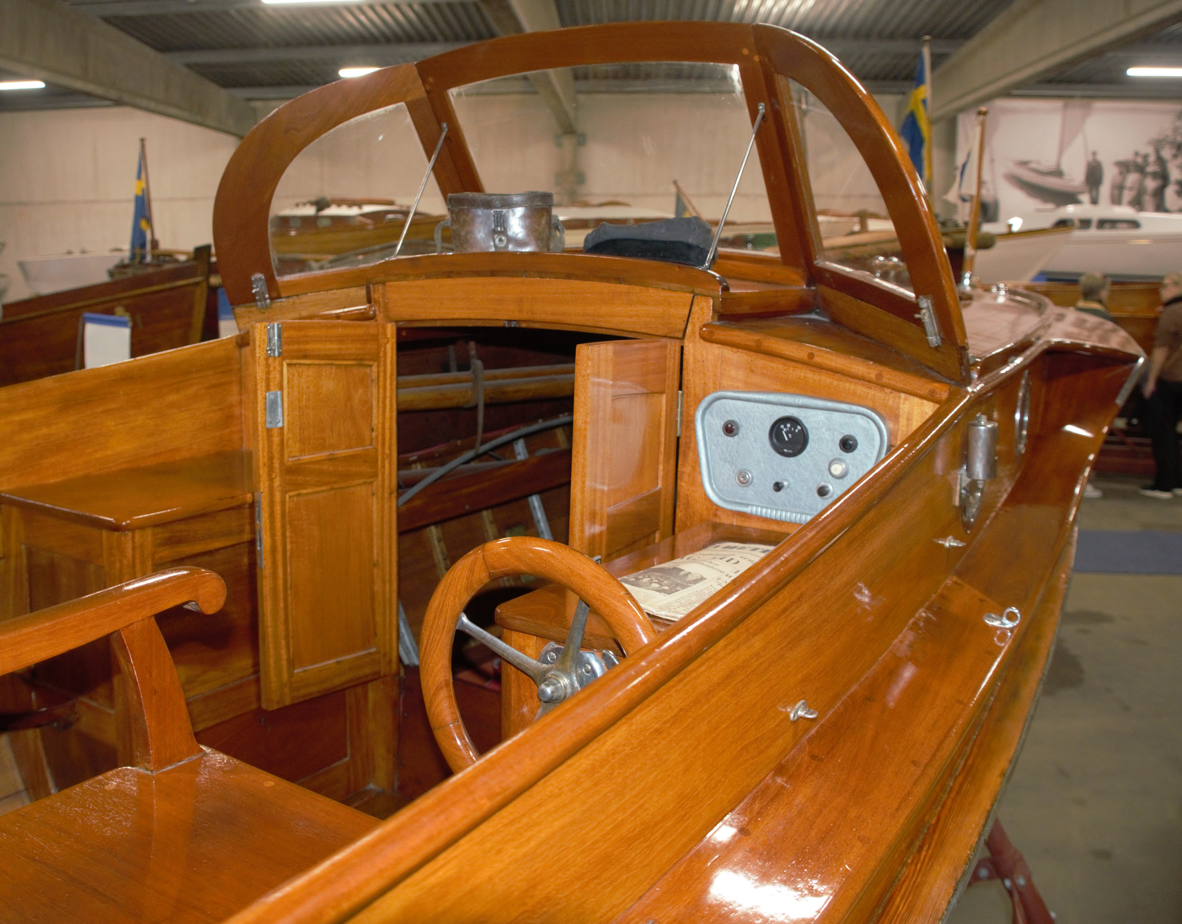 Cockpit of motorboat, built 1930, of Swedish "Pettersson type". Sjöhistoriska museet, Båtmagasinet på Rindö.